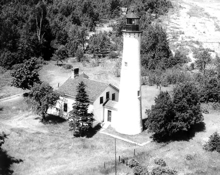 Aerial view of Sturgeon Point Light — Michigan.